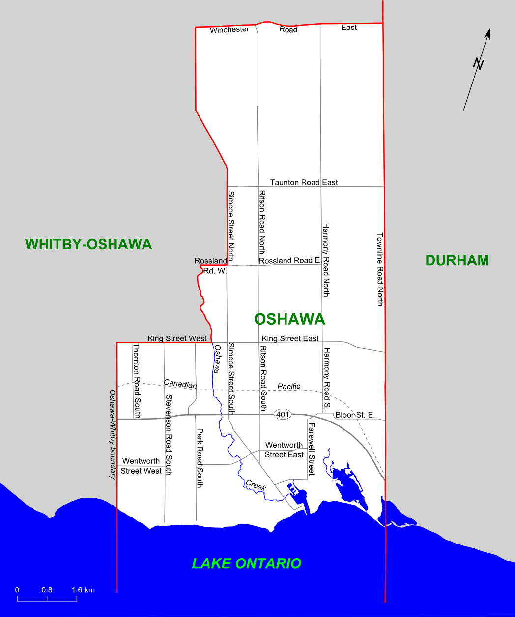 Map of the Ontario federal and political riding of Oshawa (boundaries defined 2003, adopted federally in 2004 and provincially in 2007)